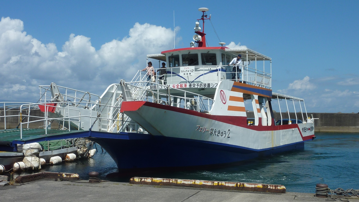 Ferry Nankyu 2 (Kagoshima Prefecture, Japan)